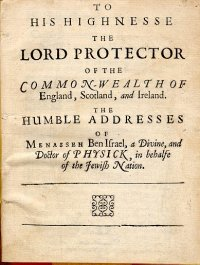 Adress to Oliver Cromwell by Menasseh Ben Israel